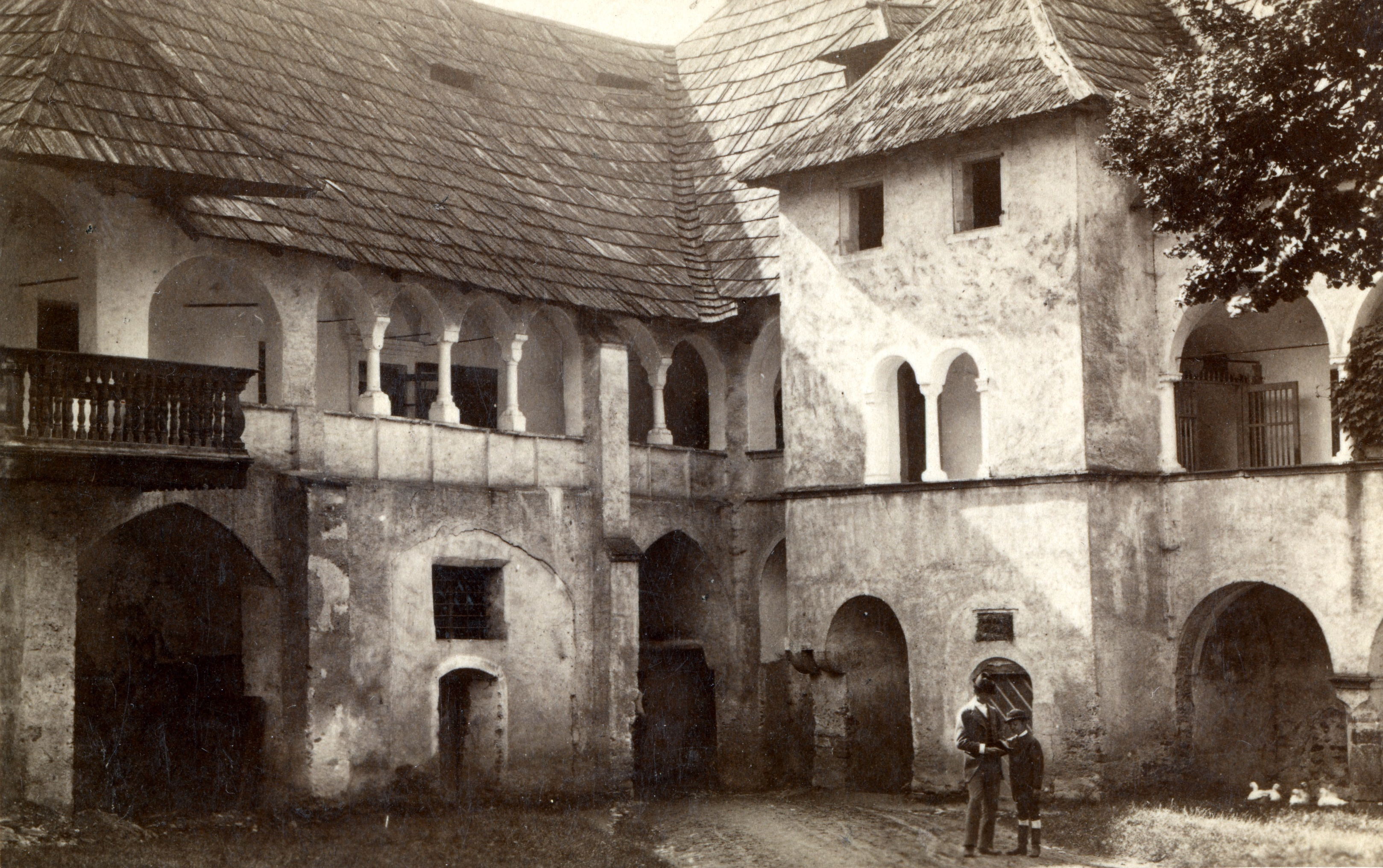 Ambulatories (access balcony) in Millstatt Abbey near Spittal an der Drau / Carinthia / Austria / EU. On the right side of the large dark gate is the entrance to the old monastery and cloister. The pillars of the arcade court may originate from a former first floor of the cloister. In the middle of the passageway to the lower part (Lindenhof). Other shows two boys in the typical rural dress of the ending 19th Century. Four geese grazing in the background. Original size of the image: 58 X 93 mm. Imprint: Kärnten. No. 134. Romanischer Hof in Millstadt.